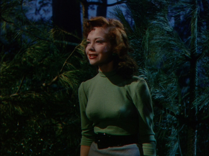 Screenshot of Helene Stanley from the film The Snows of Kilimanjaro